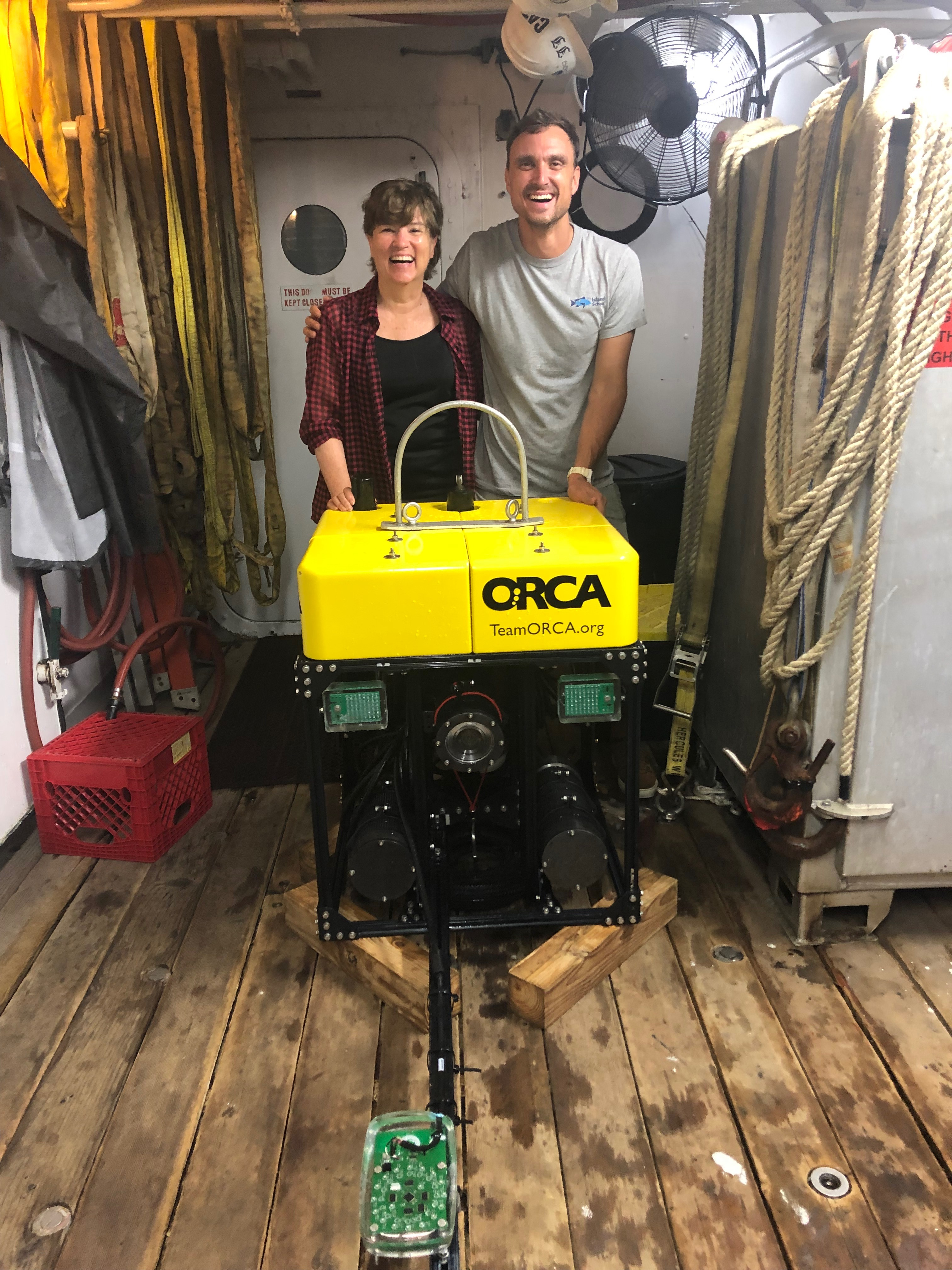 Nathan J. Robinson (left) and Edith Widder (right) standing next to the MEDUSA.